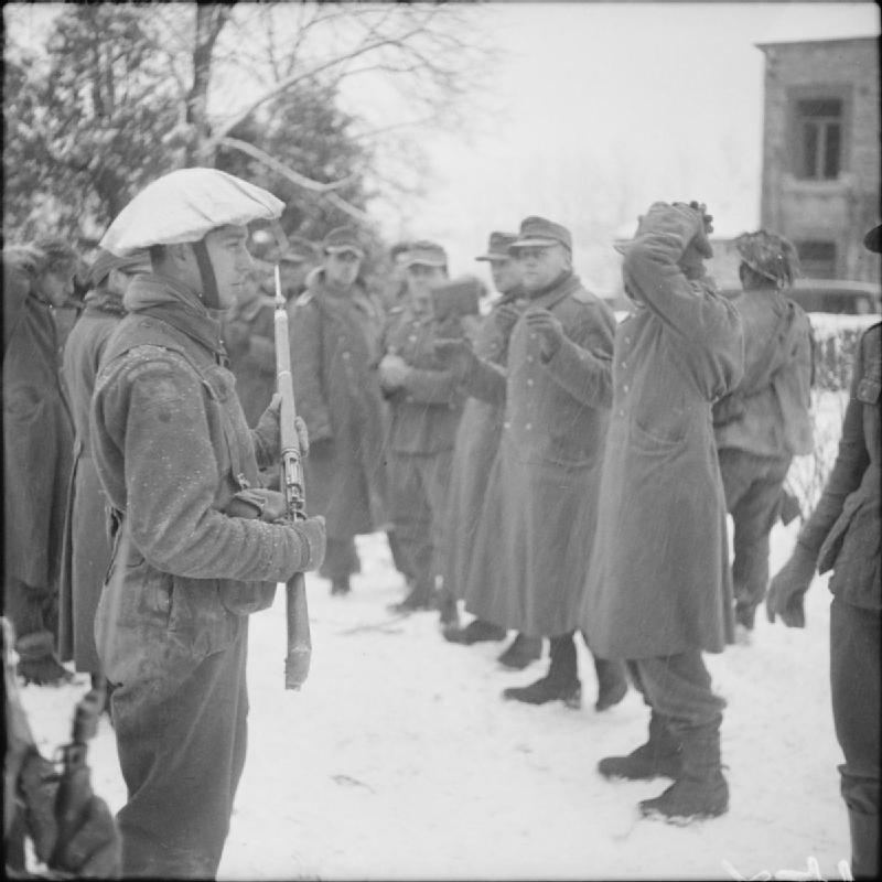 The British Army in North-west Europe 1944-45 Soldiers of 1st 'Ox and Bucks' Light Infantry, 53rd (Welsh) Division, guarding German prisoners in the village of Marche in Belgium, 7 January 1945.